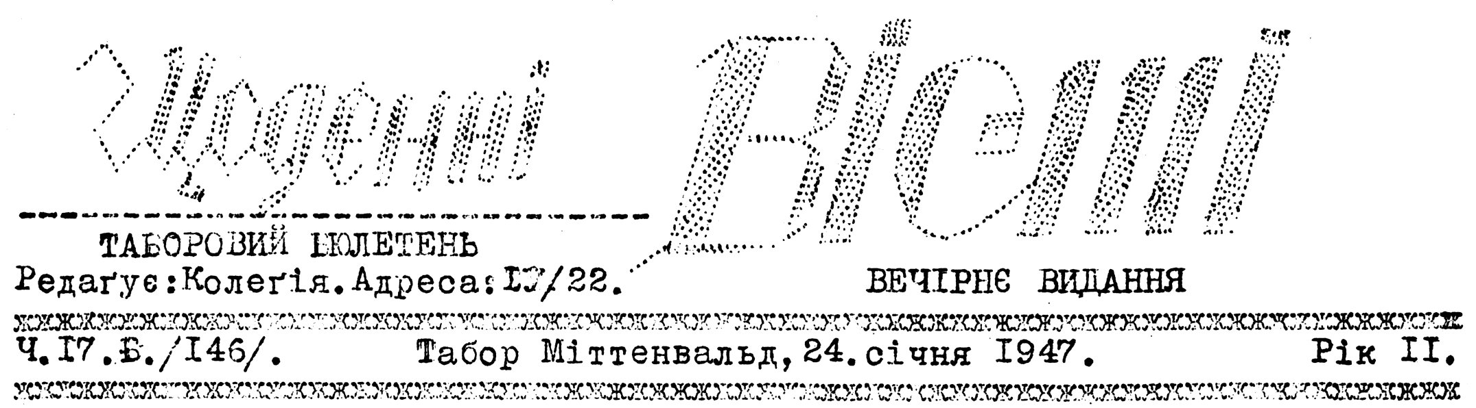 Newspaper logo of «Щоденні вісті» ("Daily news") newspaper issued by Ukrainian displaced persons in Mittenwald, Germany after WW II.